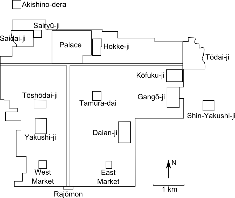 Map of the major buildings of Heijokyo at the end of the 8th century. Source: Tanaka Migaku, Heijō-kyō, Iwanami shoten, 1984, p. 4.